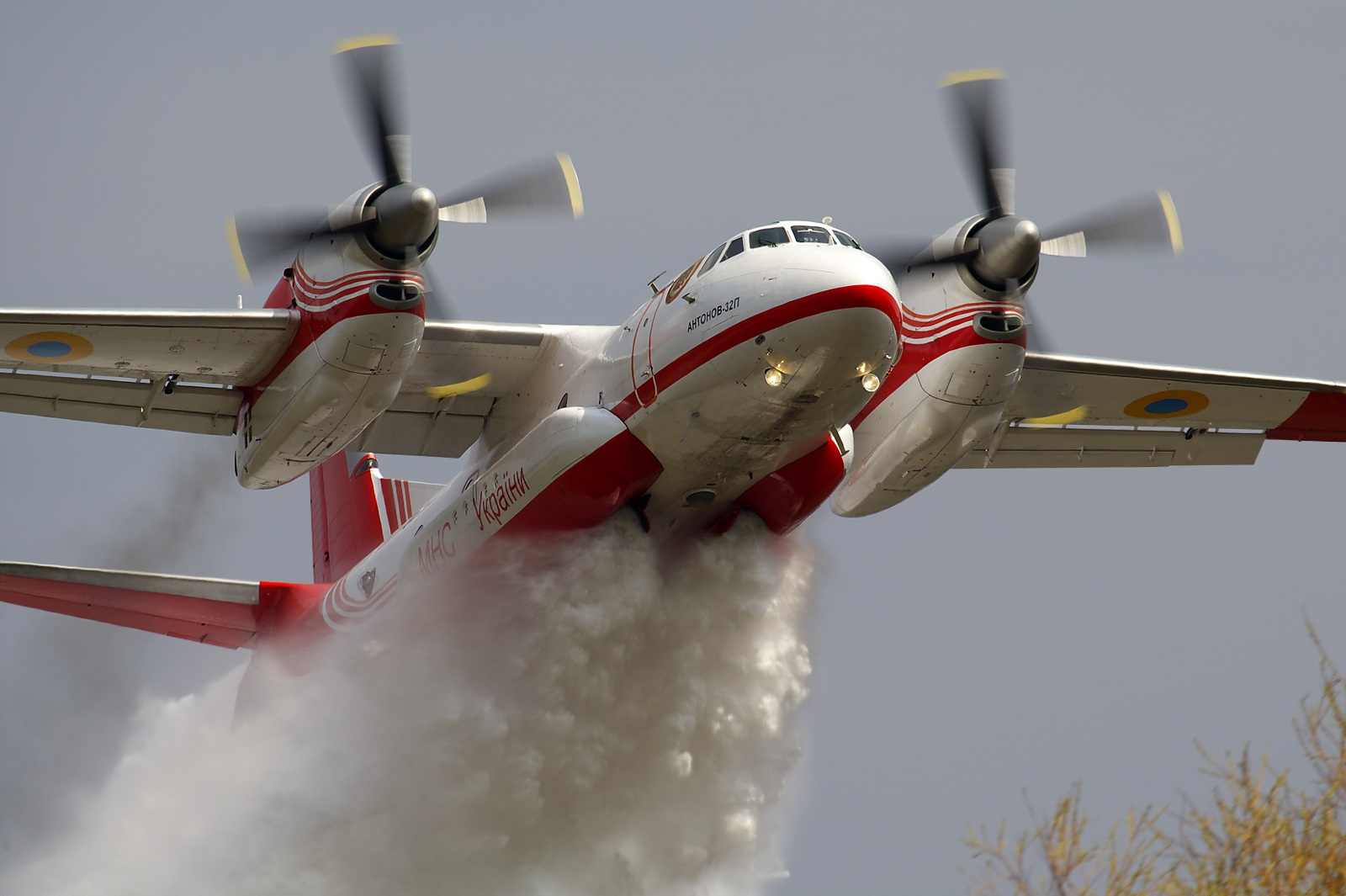 31 BLACK (cn 36-08) Training flight - precise water-dropping at spectacular low-pass. Special thanks to Vladimir Kalinin, navigator and photographer, - for invitation and assistance to make this photo-set possible.